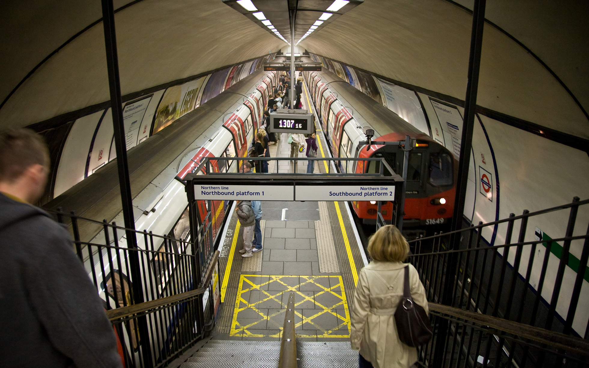 Clapham Common Tube Station north and south-bound platforms on the Northern Line, in London, England.